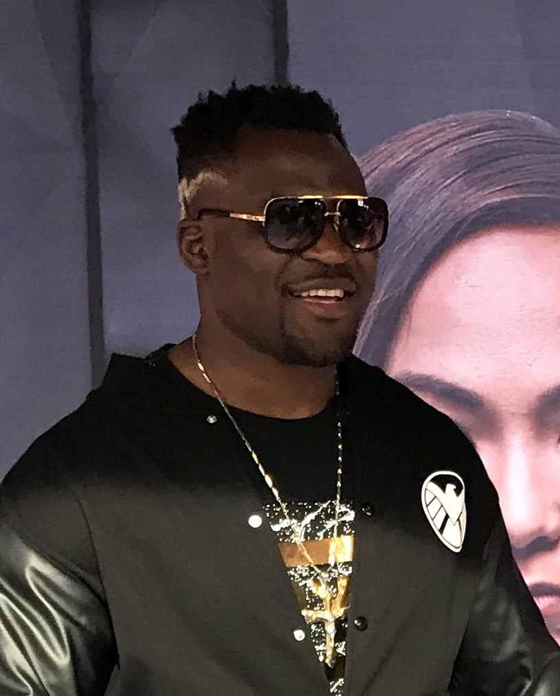 Francis Ngannou in 2017.